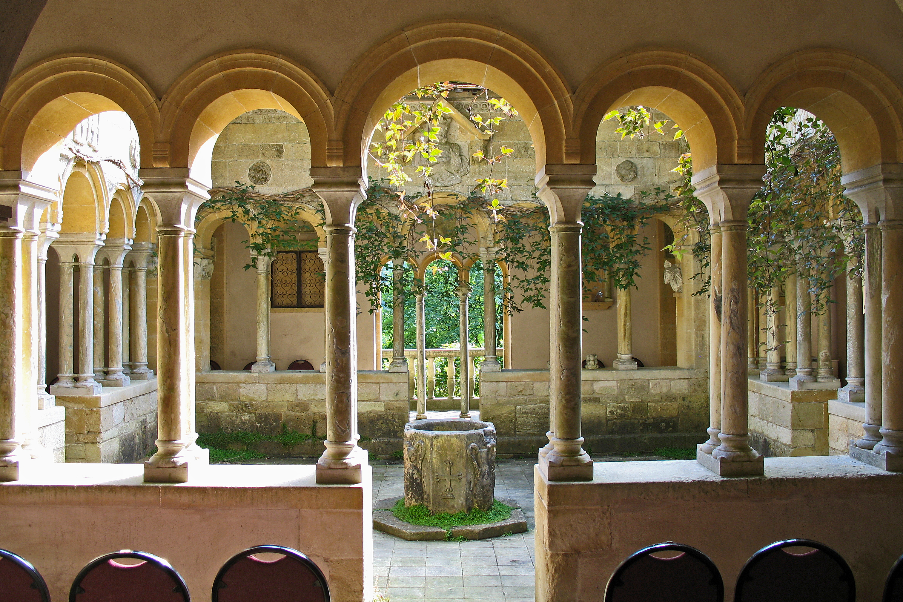 Iford Manor - interior of the Cloisters